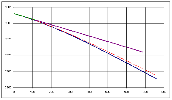 Rays from the three methods